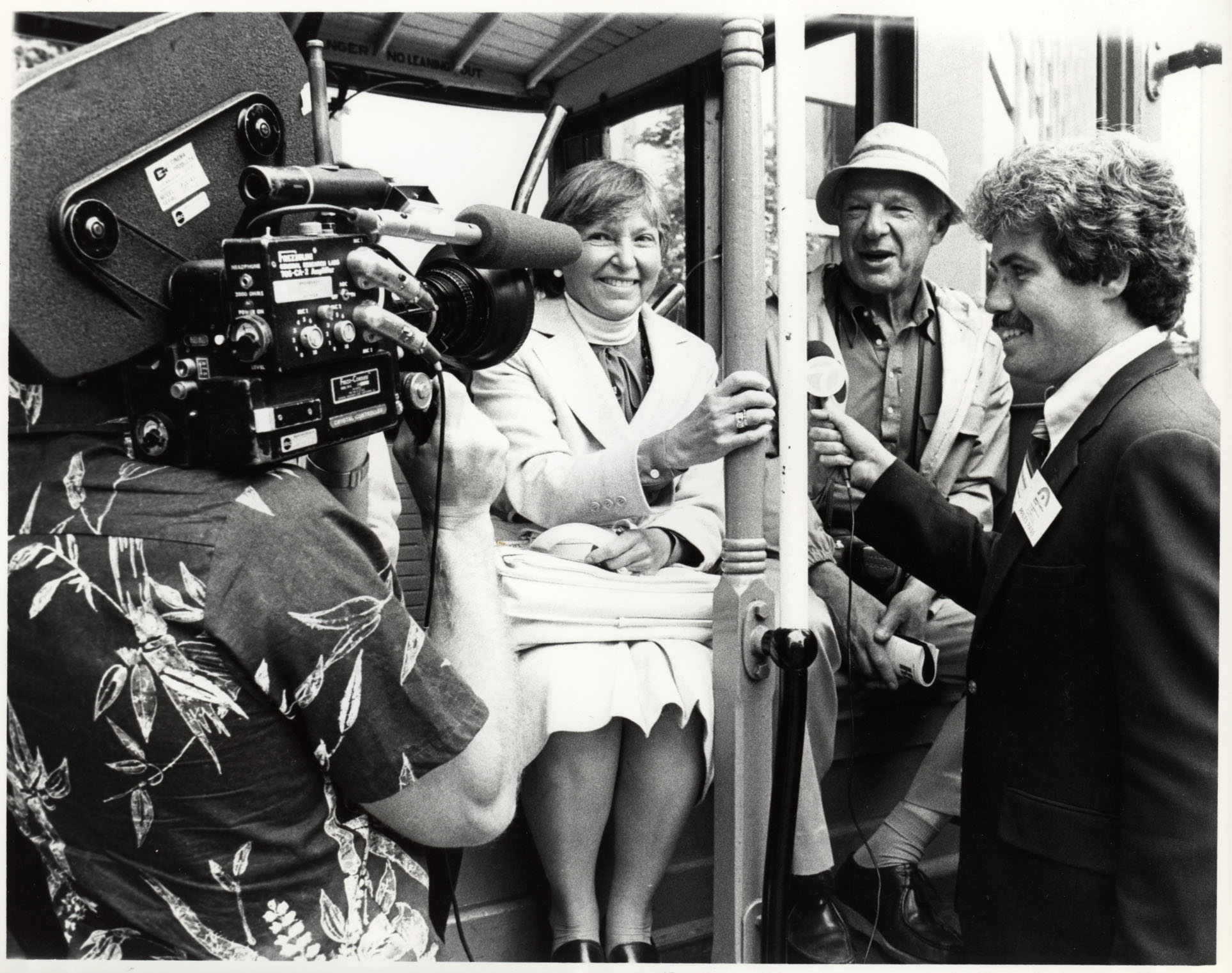 Jim Clancy San Francisco television reporter, late 1970's interviewing tourists on a cable car.